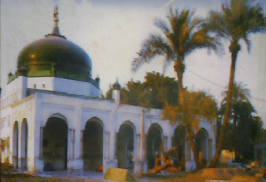 This is the Mazar (Shrine) of Hazrat mai safoora Qadiriyyah. The file shows a green doom above a white building. There are palm trees near the building. The picture was captured in Pakistan's province Pinjab's district Toba Teksingh's village Moza Mai Safoora.